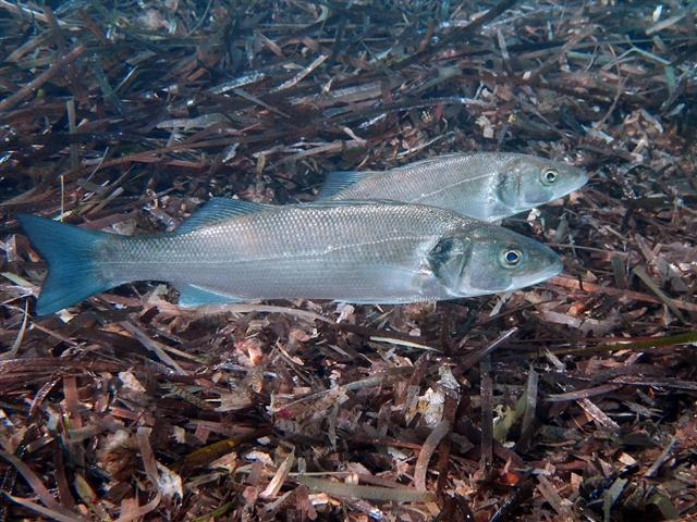 Dicentrarchus labrax photographed in Minorca, Spain.